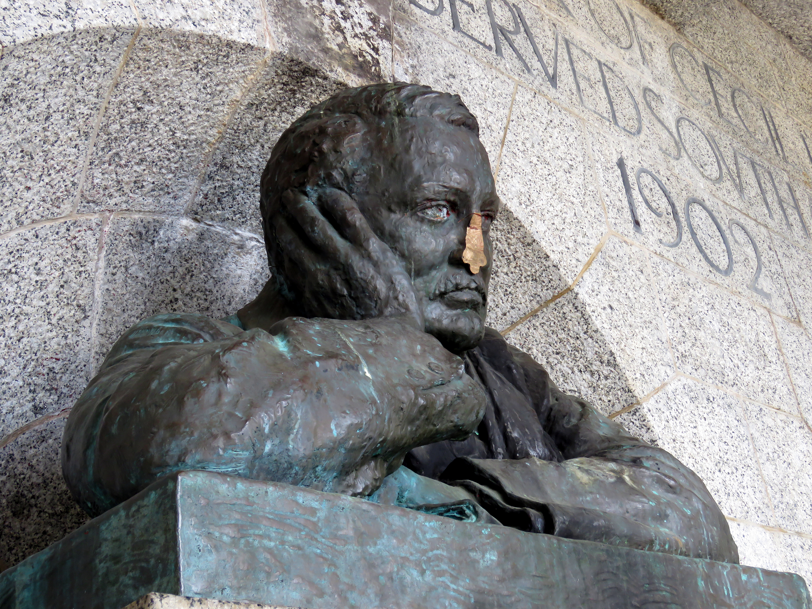 The 'defaced' bronze bust of Rhodes at the Rhodes Memorial, Cape Town, South Africa. The vandalism occurred as Rhodes statues around the world have been criticised by the "Rhodes Must Fall" movement as emblems of racism and imperialist colonialism.